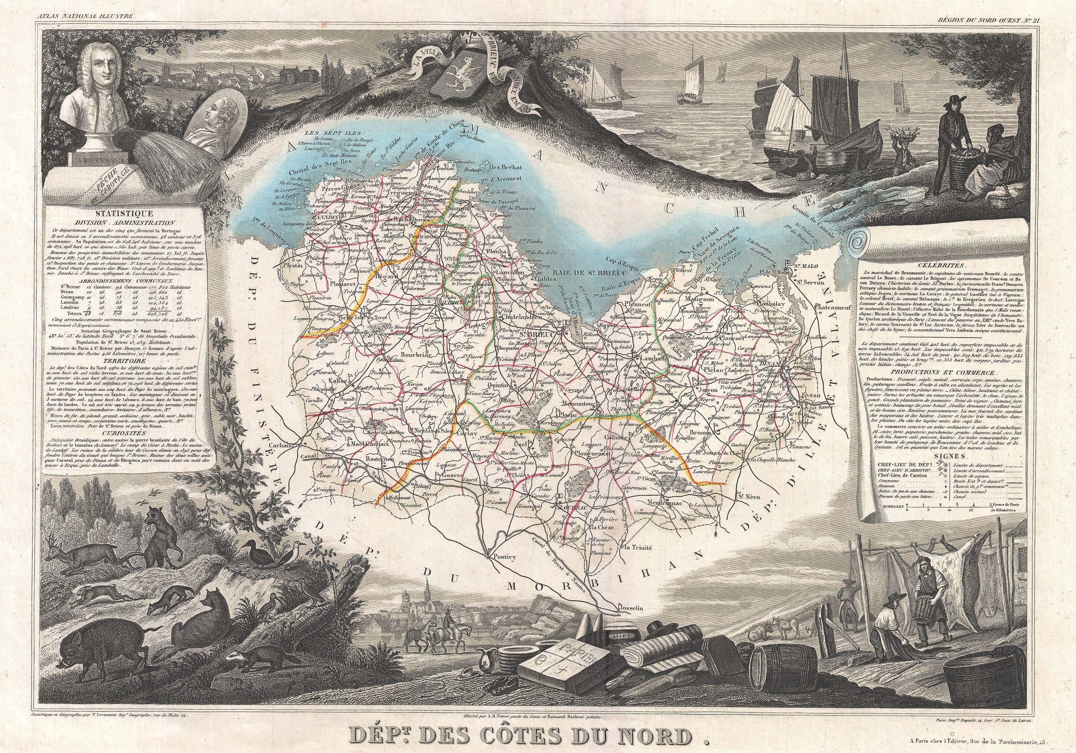 This is a fascinating 1852 map of the French department of Cotes du Nord, a maritime region in Brittany, France. The whole is surrounded by elaborate decorative engravings designed to illustrate both the natural beauty and trade richness of the land. There is a short textual history of the regions depicted on both the left and right sides of the map. Published by V. Levasseur in the 1852 edition of his Atlas National de la France Illustree.